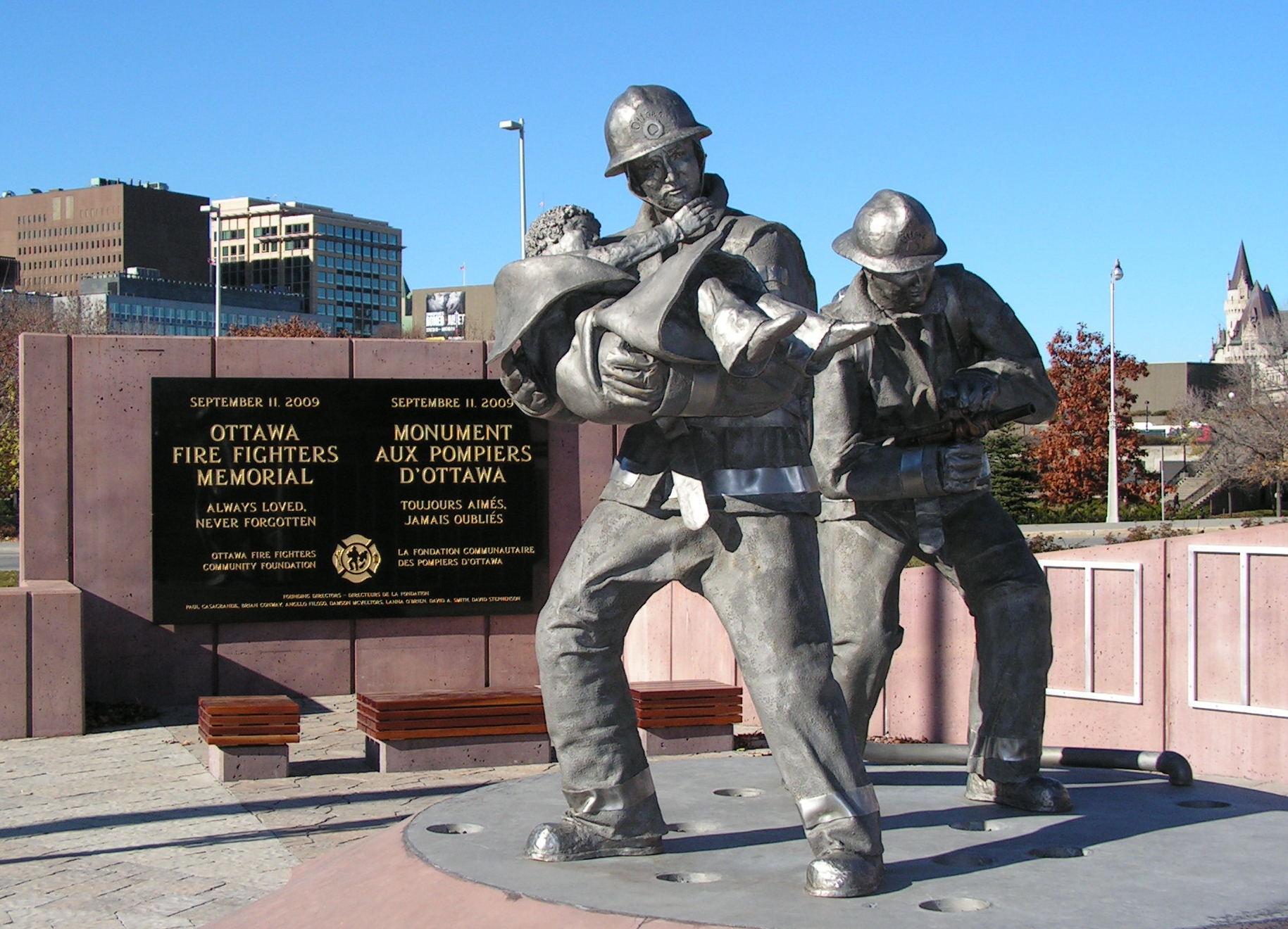 Ottawa Fire Fighters Memorial, outside Ottawa City Hall, Ottawa, Ontario, Canada. (Installed 11 September 2009)